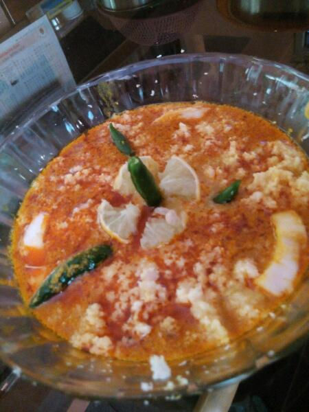 It is a Bengali dish with prawn, coconut cream, lemon, mustard oil, turmeric and other spices.